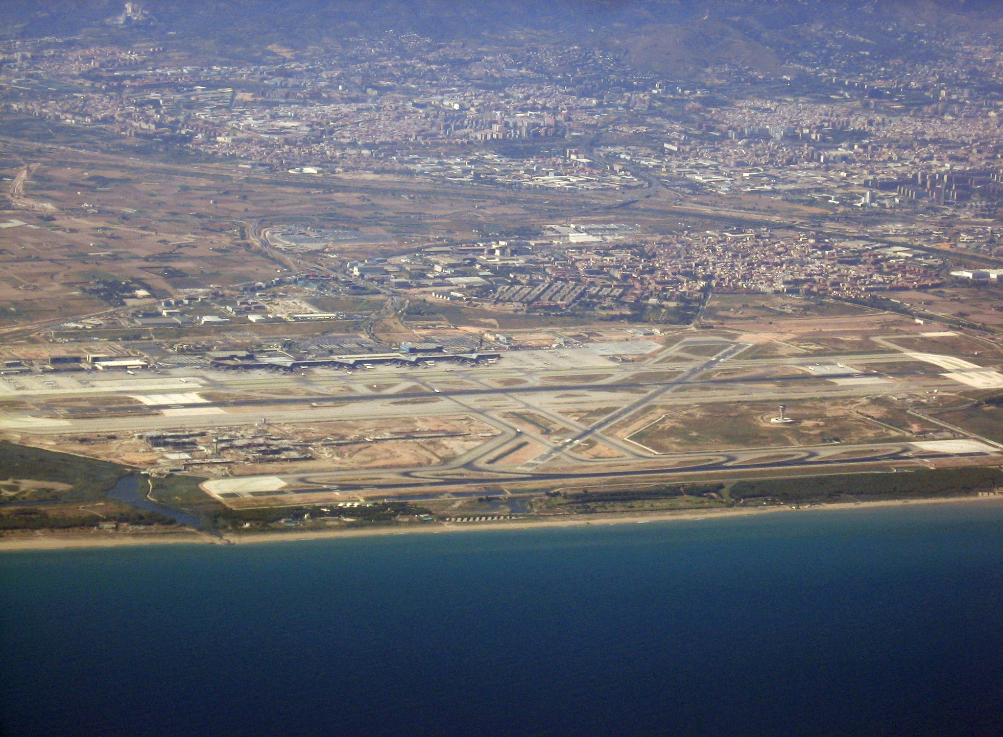 Description: Barcelona International Airport seen from the sky Source: self-made Photographer: Thomas Möllmann Date: July 21, 2006